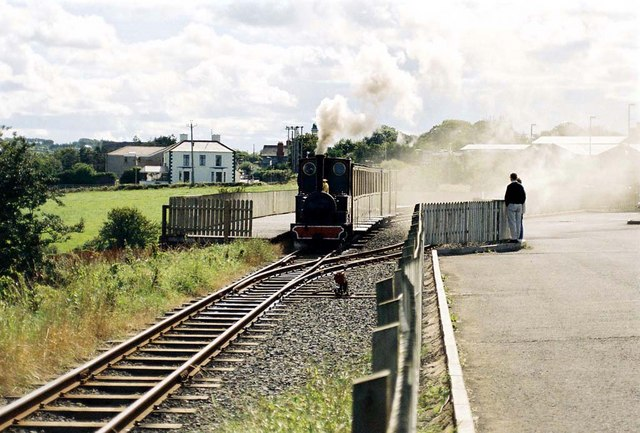 Bushmills Station. No.1 Tyrone departing Bushmills for the Giants Causeway. This two mile stretch of 3ft gauge railway runs from Bushmills to the Giants Causeway and was opened in 2002. It utilises the old track bed of the Portrush to Giants Causeway railway which closed in 1949. Most of the current track and rolling stock was used on the Shanes Castle Railway which closed in 1995.